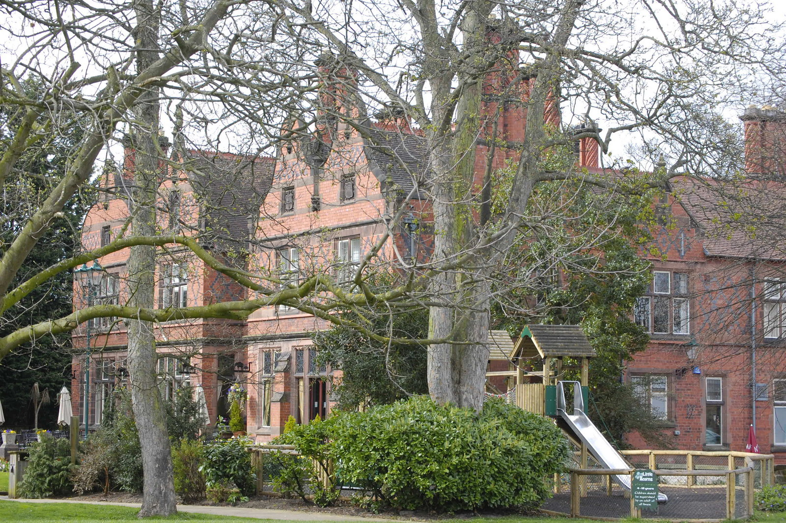 Photograph of Oakfield Manor in Chester Zoo